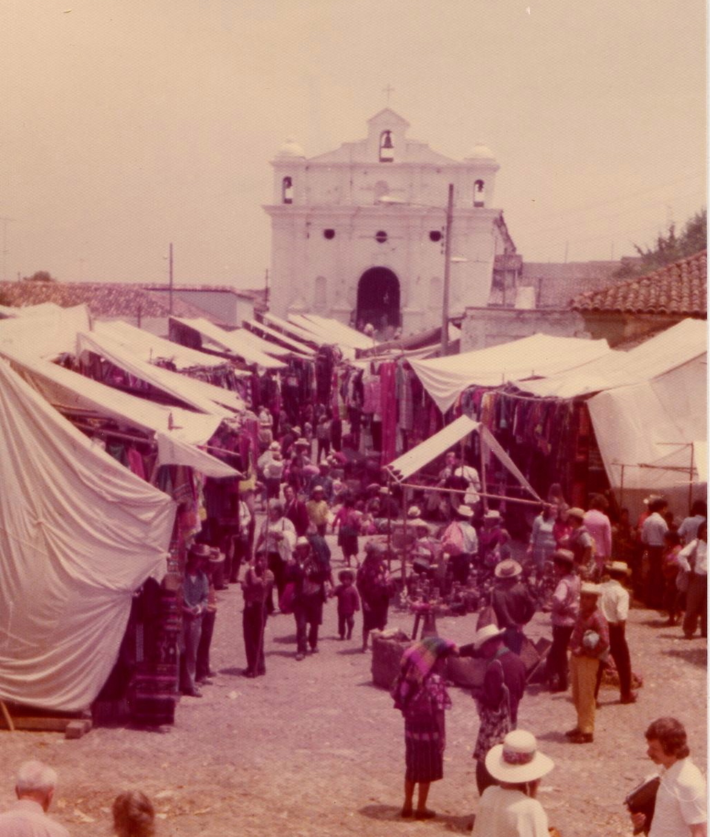 Chichicastnango, Guatemala; view showing Market and Santo Tomas Church.